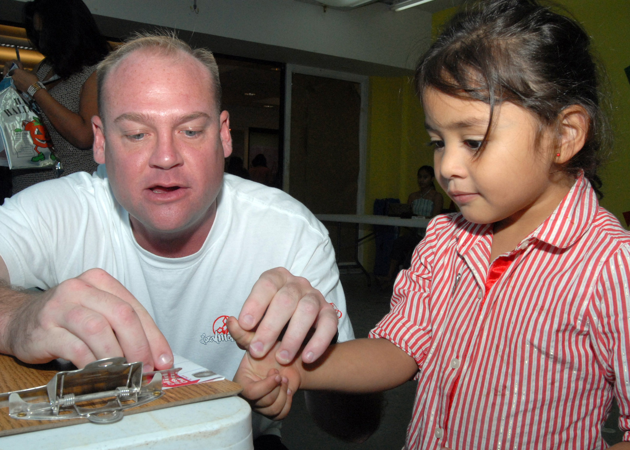 Agana, Guam (Oct. 28, 2006) - Petty Officer 1st Class Daniel Jones, a Sailor assigned to Naval Computer Telecommunications Station (NCTS) Guam, fingerprints Alexis Kosak during the 11th annual Project KidCare event held at Agana Shopping Center. The project's goal is to assist local authorities with locating and recovering missing children and inform the public about ways to prevent child abduction. U.S. Navy photo by Mass Communication Specialist 2nd Class John F. Looney